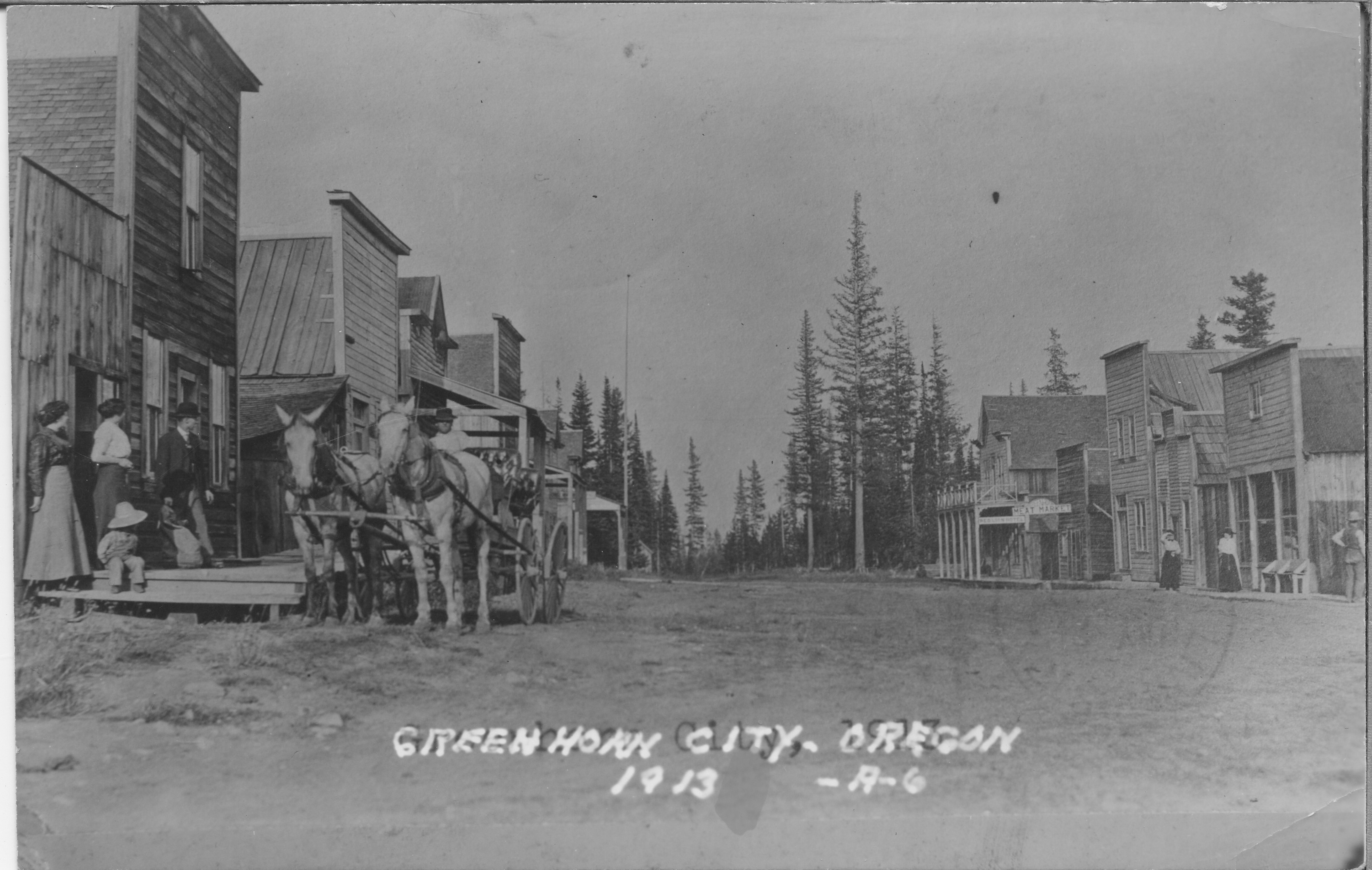 Photograph taken in the summer of 1913 of the city of Greenhorn, Oregon